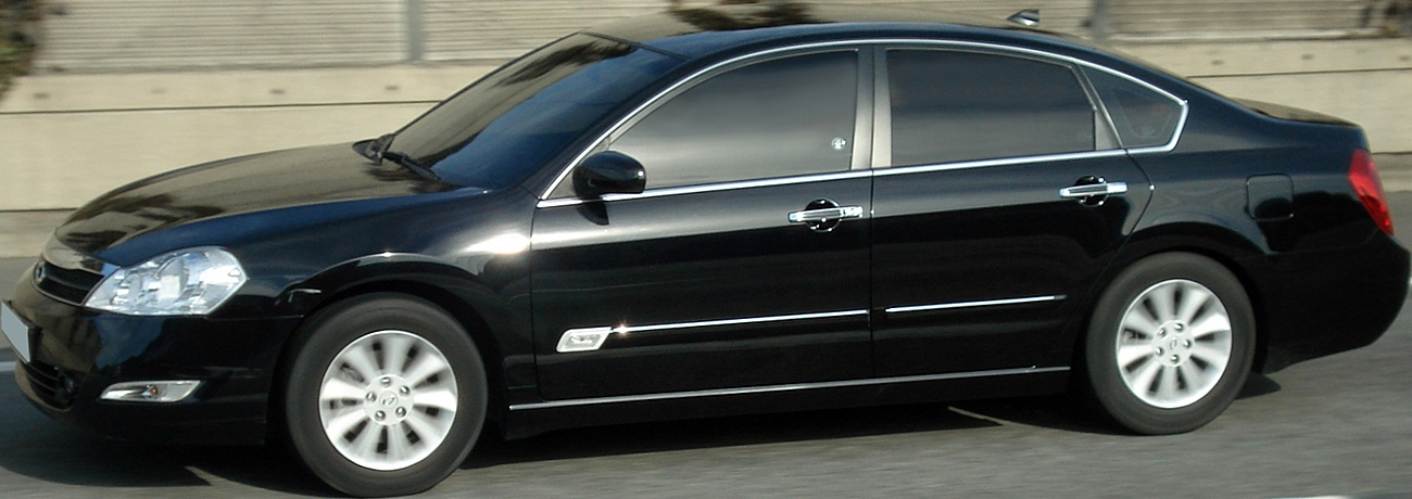 Renault Samsung SM5 New Impression